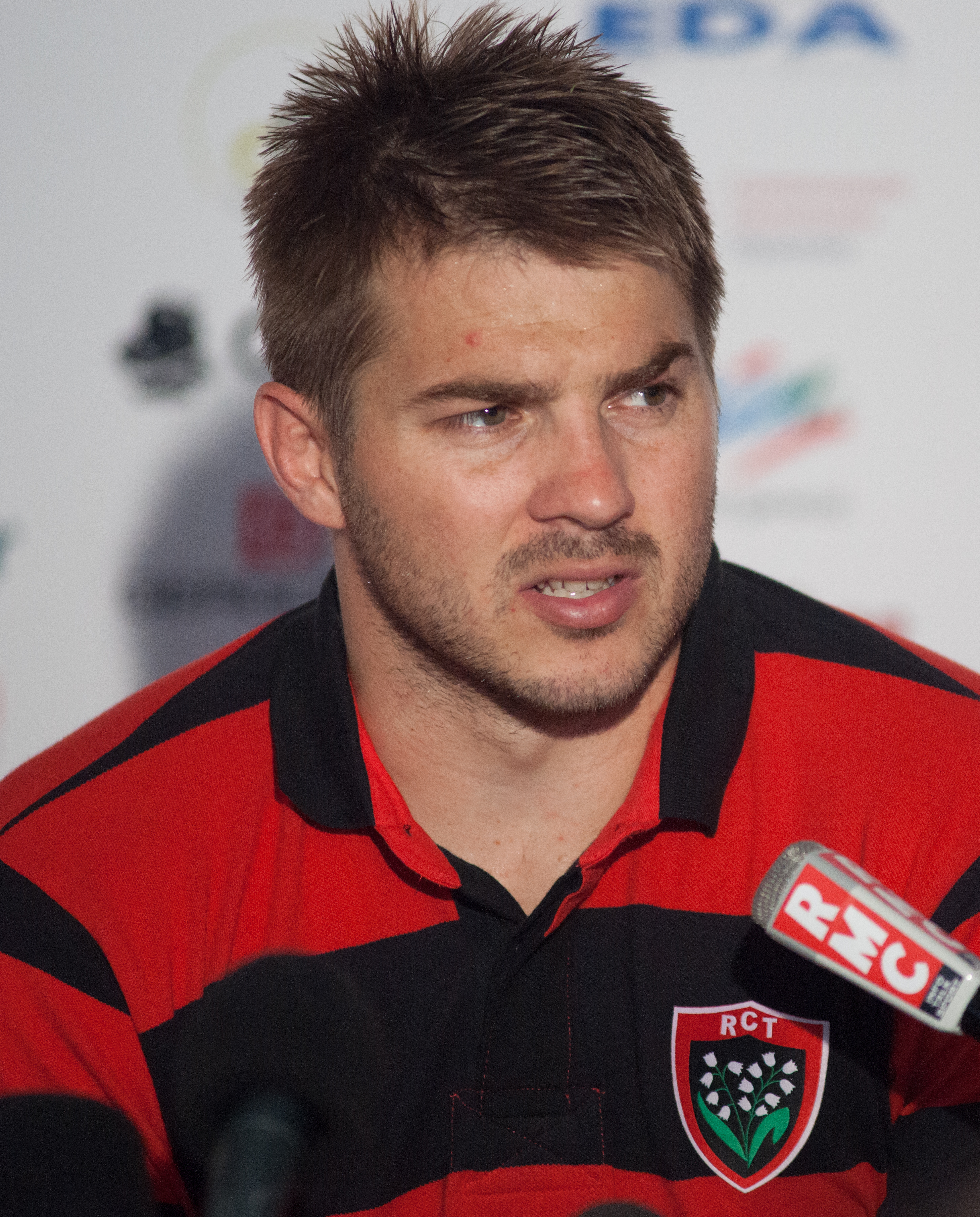 The making of this document was supported by Wikimedia CH. (Submit your project!) For all the files concerned, please see the category Supported by Wikimedia CH. US Oyonnax - Rugby club toulonnais, 28th September 2013